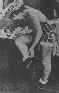 Amelia Mirel- actriz y vedette